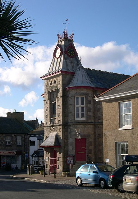 Marazion Town Hall. This building once served as the town jail and fire station. Described in Beacham, Peter; Pevsner, Nikolaus (2014). Cornwall. New Haven and London: Yale University Press ISBN 978 0 300 12668 6; p. 339: "Market Place. 1871. An extraordinary irruption of chateau-style architecture into the centre of the town ... The clock tower is elaborately detailed below with a tall traceried blind niche."